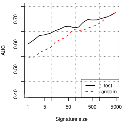 Influence of signature size on breast cancer prognosis performance